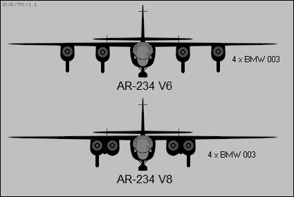 Front-view silhouettes of the Arado Ar 234 V6 and V8 prototypes